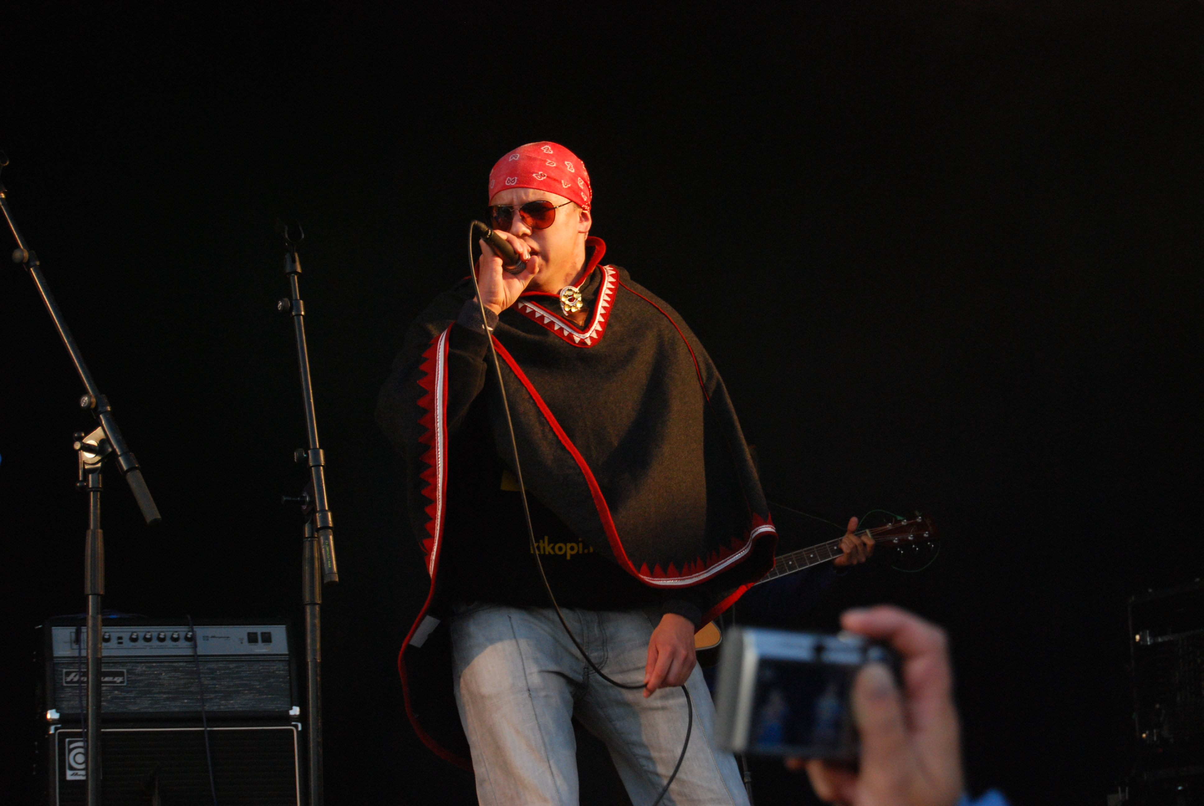 Musical group Duolva Duottar on Márkomeannu, Norway.